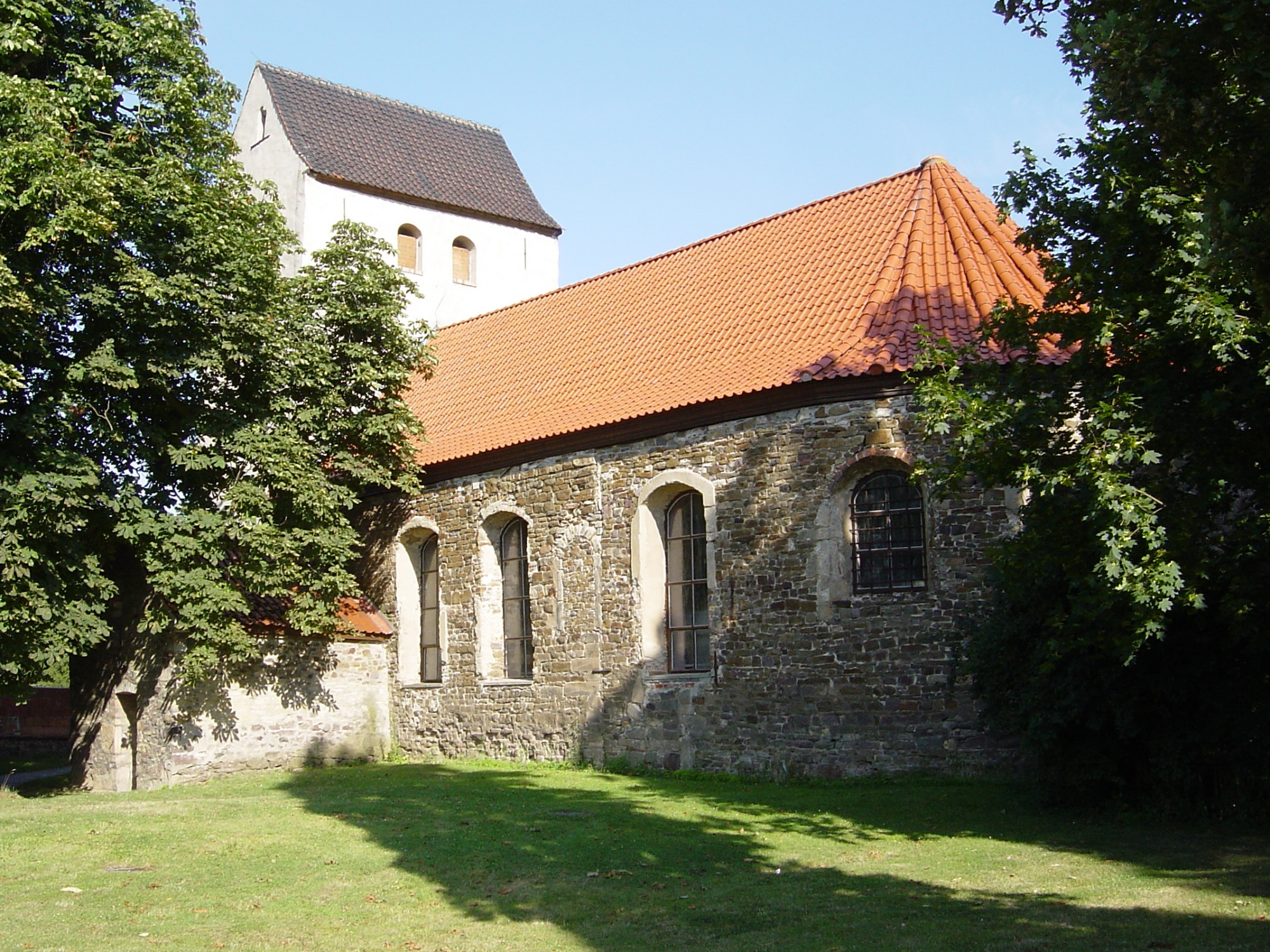 Protestant church St. Petri in Ochtmersleben, Germany